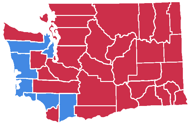 1980 Washington senate election by counties